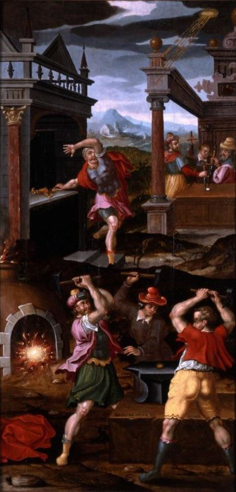 JANSZ CLAES, Profanation of hosts, 16th C (Museum of the City of Brussels)